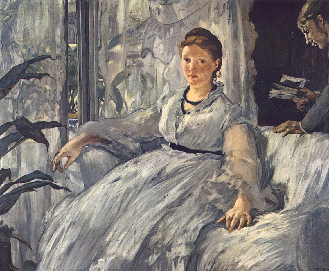 Portrait of Suzanne Manet and her son Léon Leenhoff